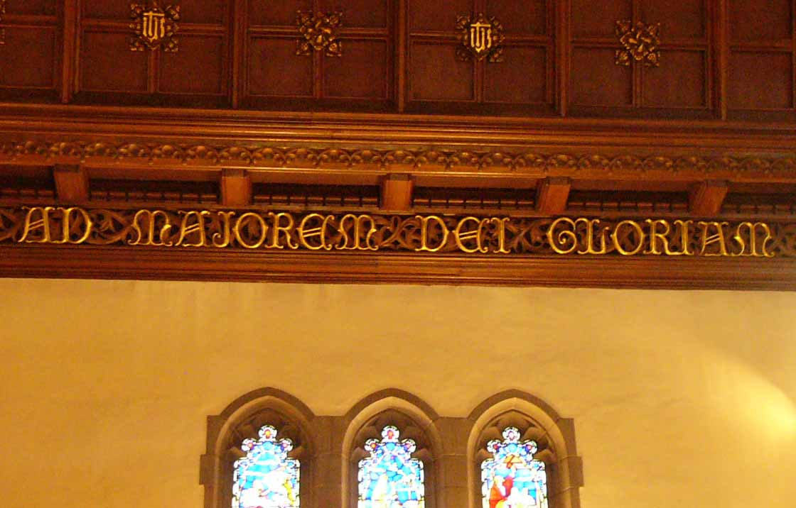 A.M.D.G. engraving in choir loft of St. Ignatius Church, Chestnut Hill, MA photograph by Dr. John P. Workman, Jr.